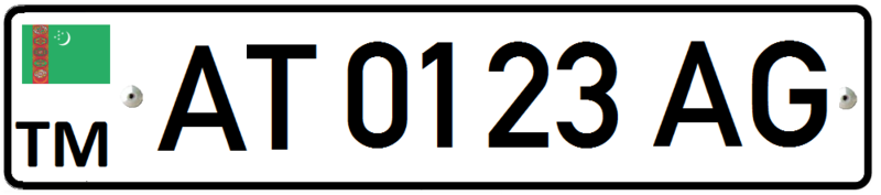 Private license plate in Turkmenistan